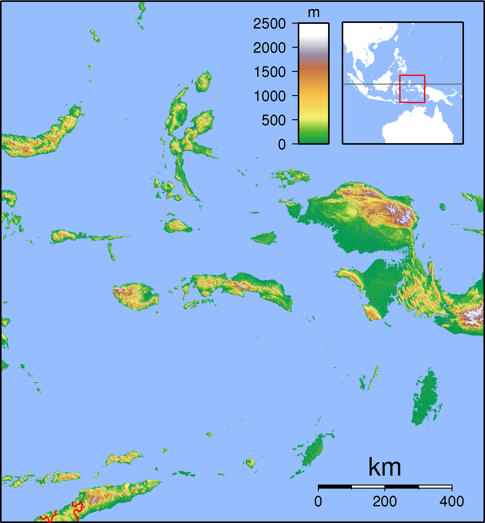 Topographic locator map for Maluku Islands, Indonesia. Created with GMT from public domain SRTM data. Left: 123, bottom: -9.5, right:136 top:4.5